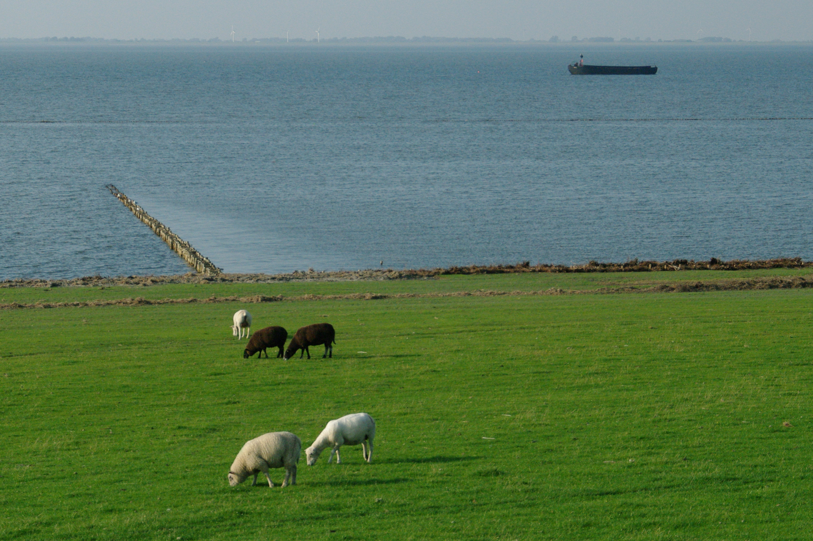 Dike in Wasserkoog/Tetenbüll, North Frisia. Sheep grazing, North Sea, in the background a boat needed for works on coastal protection.